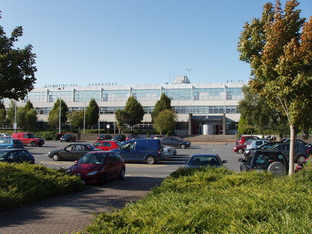 Waterford Institute of Technology and its car park On the Cork road.